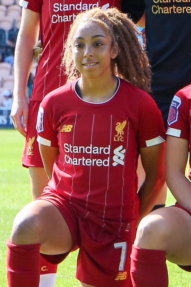 2019–20 FA WSL: Tottenham Hotspur FC Women v Liverpool FC Women, 15 September 2019 – Liverpool starting line-up.